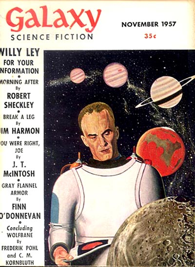 Cover of Galaxy,November 1957